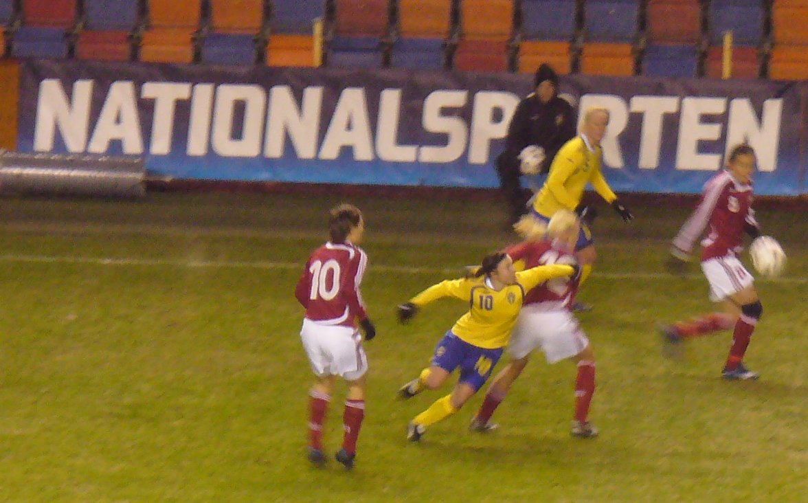 Hanna Ljungberg (no. 10, yellow/blue shirt) in a cap against Denmark. Also pictured is Anne Dot Eggers Nielsen (no. 10, red/white shirt), Julie Rydahl Bukh (no. 8, red/white shirt) and Christina Ø. Ørntoft (no. 12, red/white shirt) Match data: .